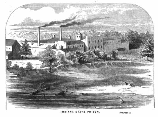 Illustration of Indiana State Prison from 1871 book